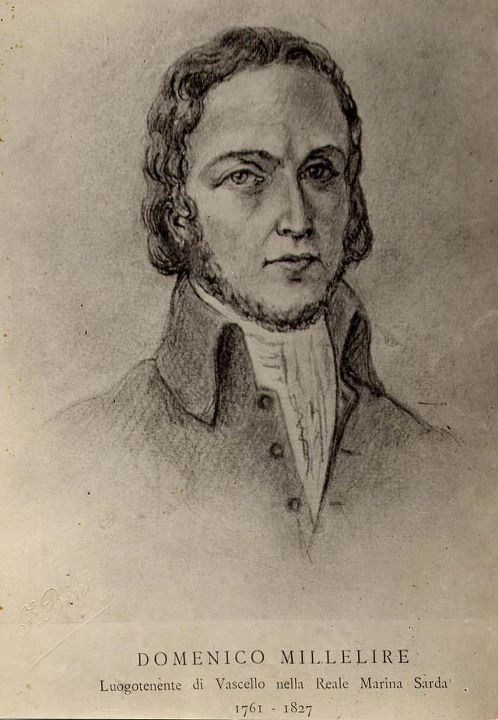 Italian patriot and admiral Domenico Millelire